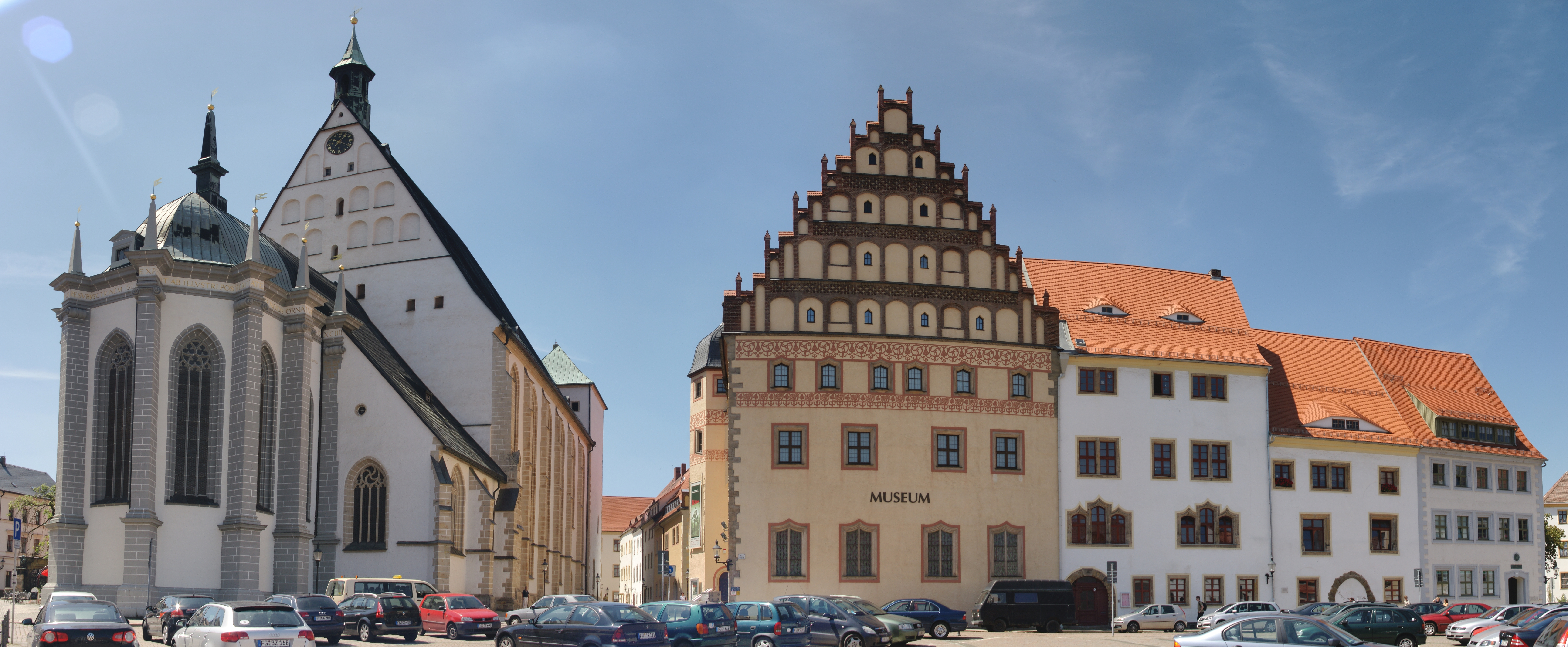 Freiberg, Cathedral St. Marien with Mining Museum, seen from Untermarkt